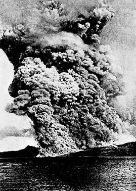 The destruction was caused by a nuee ardente, a type of pyroclastic flow that consists of hot incandescent solid particles.